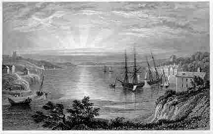 Engraving by Henry G. Gastineau - Published in London - 1829/31 - In public domain, author died over 100 years ago.